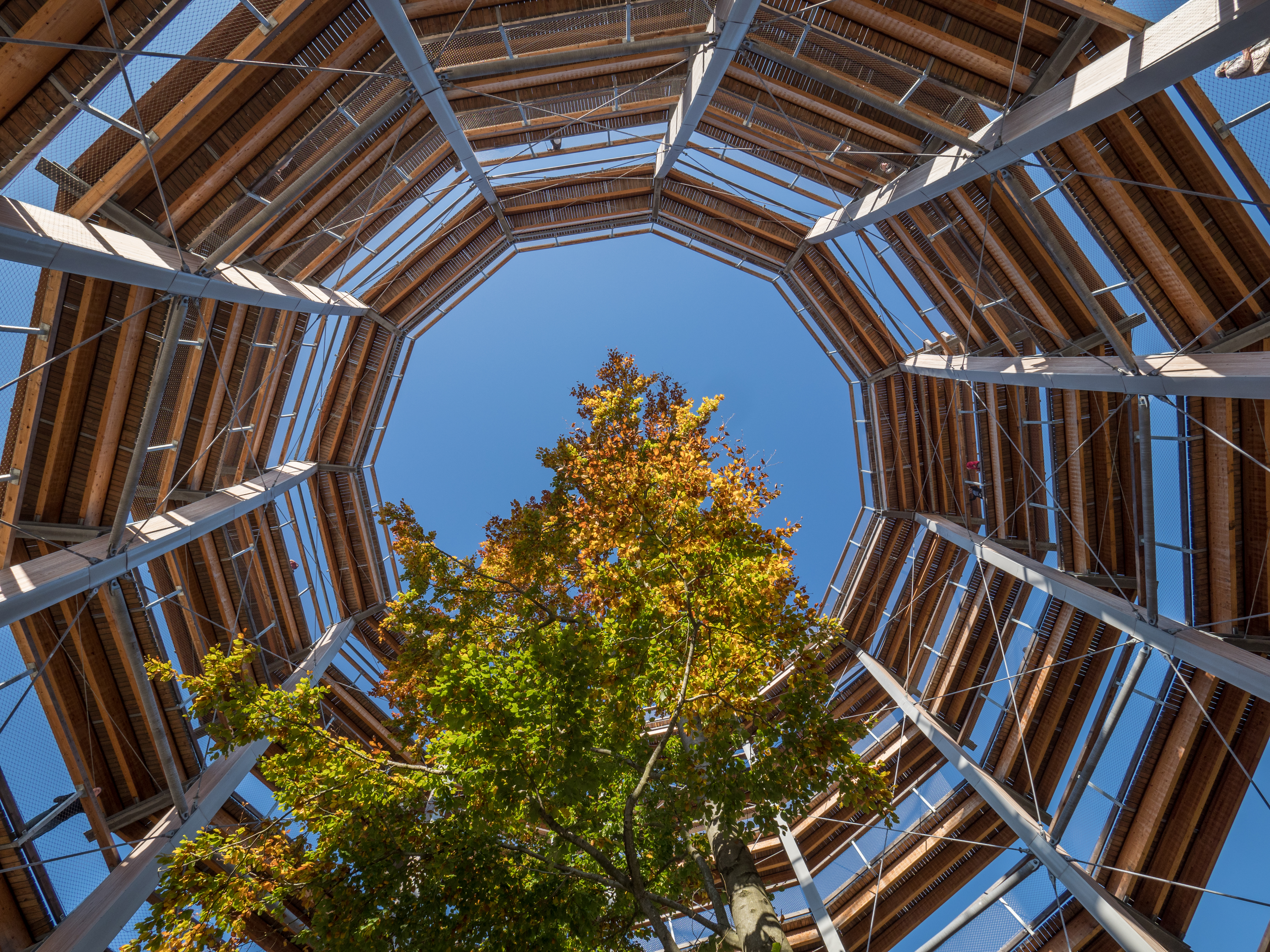 Lookout tower in the treetop path in the Steigerwald Nature Park.